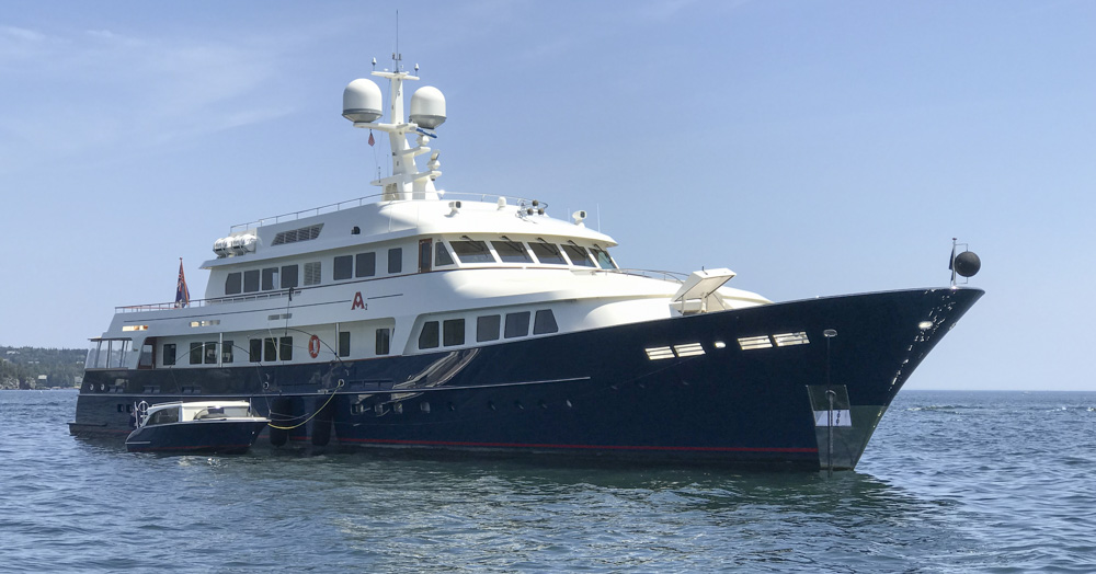 A2 is a 42.37-metre Feadship yacht, built in 1983 and refitted in 2012, shown at anchor outside Northeast Harbor, Maine in July 2019. The yacht tender is a 6.5-metre Hodgdon Yachts "Mini Venetian Limo Tender".